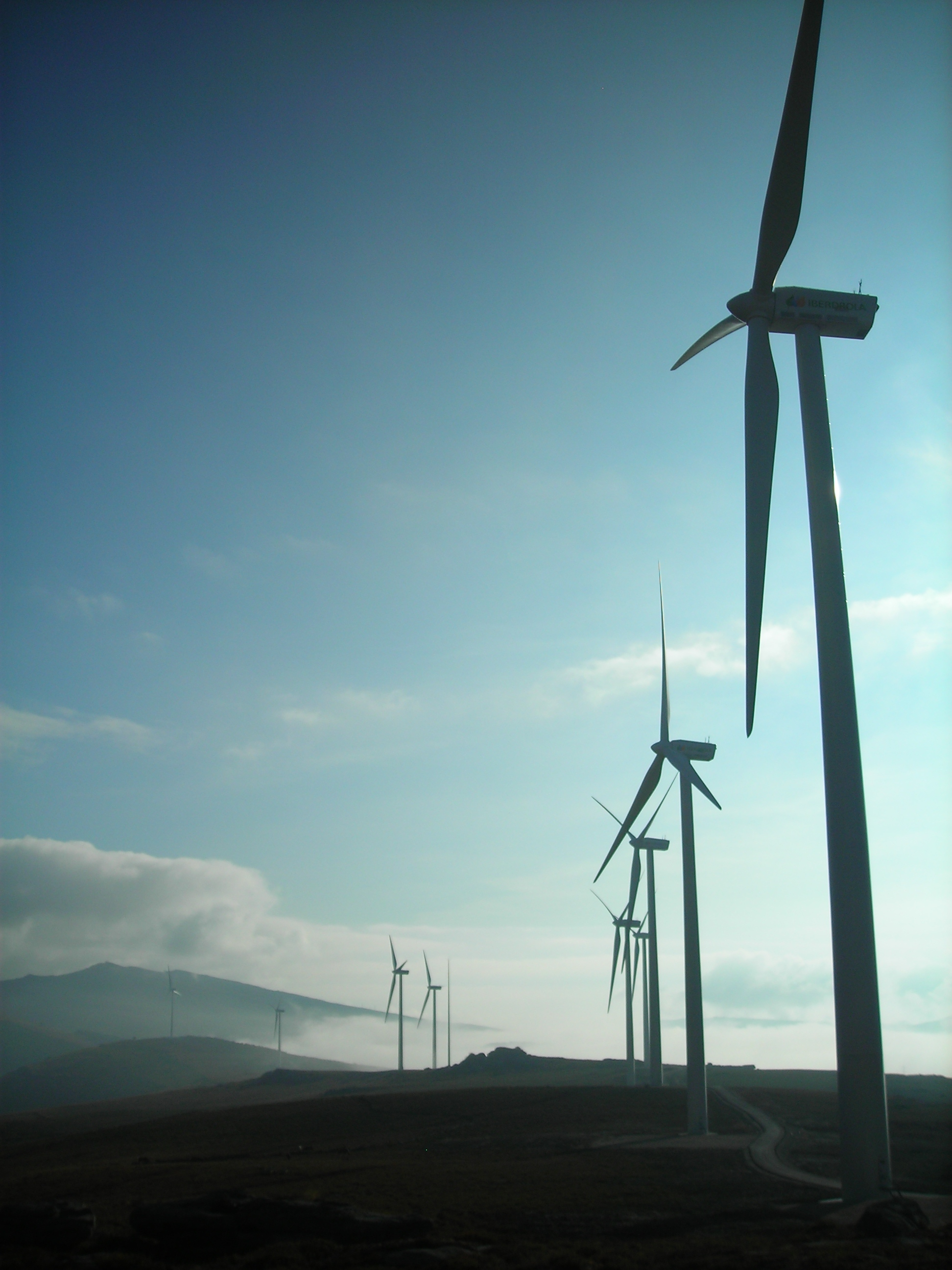 Iberdrola wind generators in La Cotera Wind Farm, in the province of Burgos